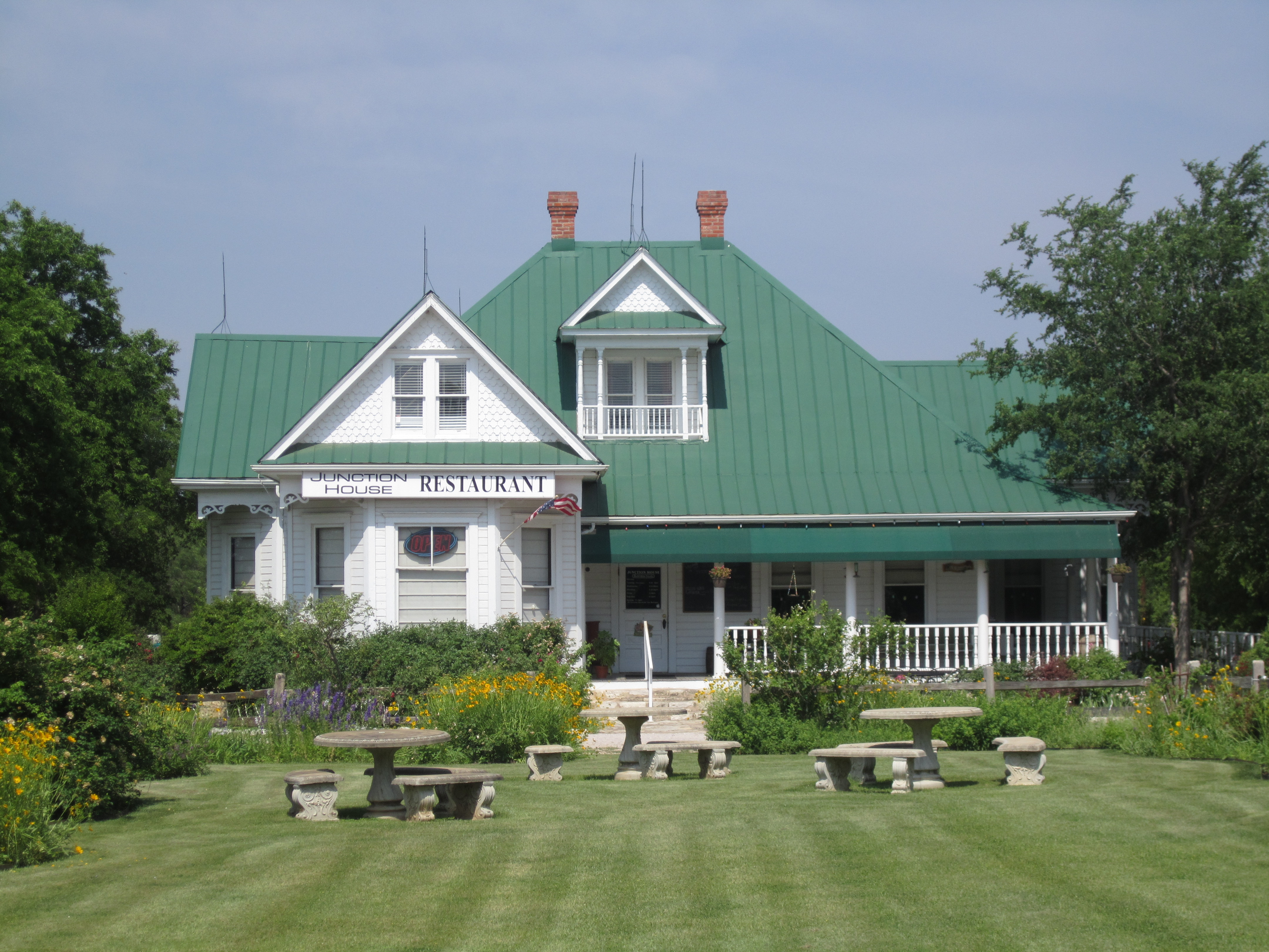 I took photo with Canon camera in Kingsland, Texas. The house was used as a set in The Texas Chain Saw Massacre (1974). The house was moved to Kingsland from the area near Round Rock, Texas where it was located when the movie was filmed.